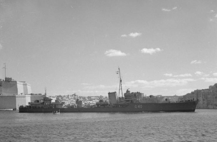 British destroyer HMS LIVELY underway in Grand Harbour, Valletta, Malta.